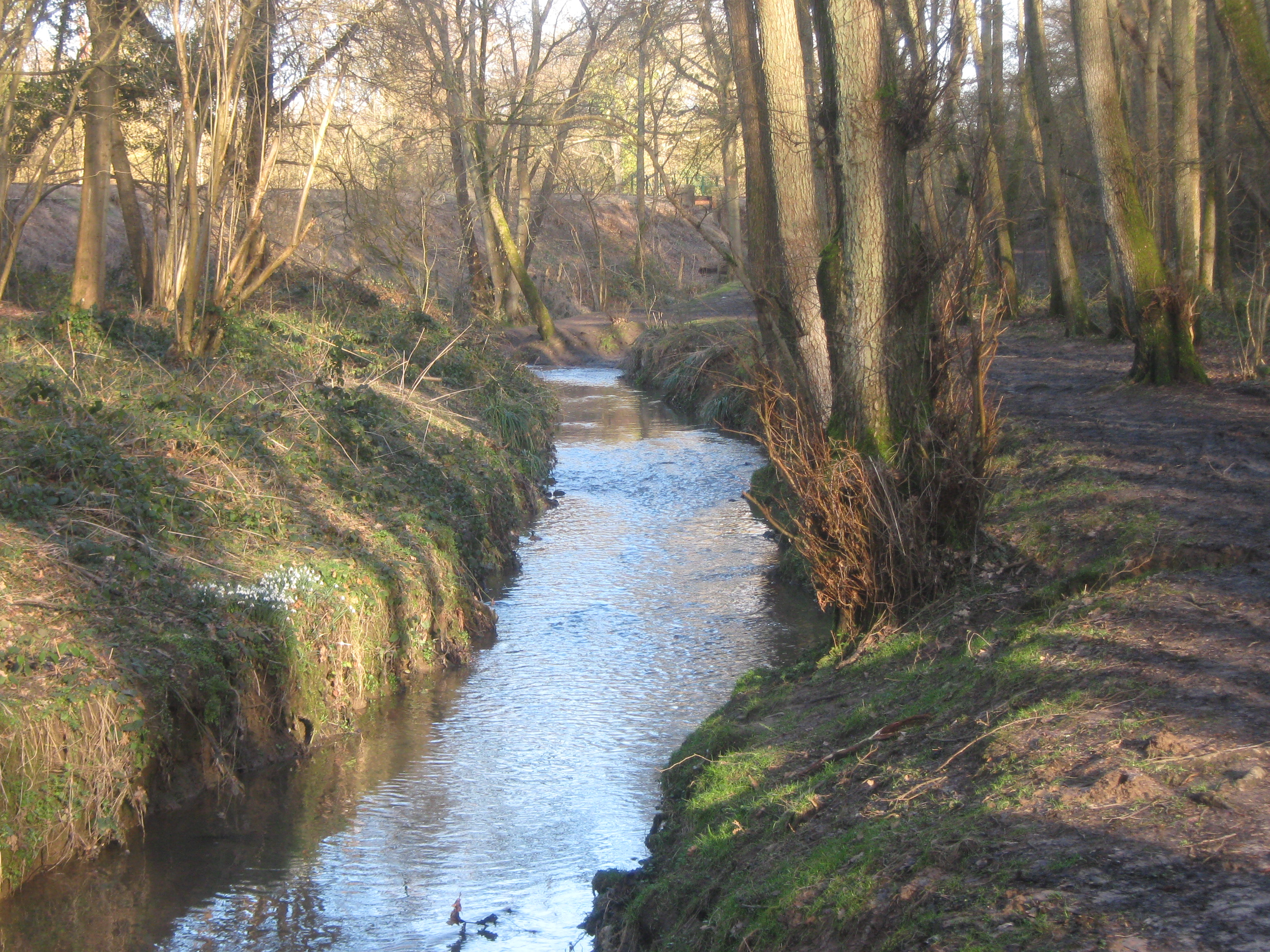 River Grom and footpath in Friezland Wood This river leads from Groombridge towards Tunbridge Wells. The footpath (on the right) leads from High Rocks Lane towards the A26 Eridge Road, it is part of the link route for the Tunbridge Wells Circular (long distance path) heading from Groombridge towards Tunbridge Wells. The wood is managed by the Woodland Trust. A small patch of snowdrops can be seen on the left beside the river. In the background is the embankment for the Spa Valley Railway.